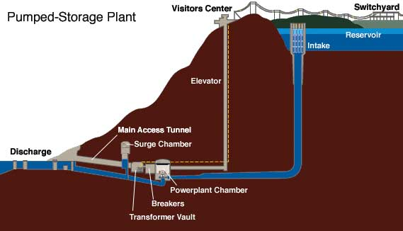 Transwiki approved by: User:Dmcdevit This image was copied from en. The original description was: Pumped Storage diagram at TVA's Racoon mountain As a US government organization, no copyright is claimed Pud 17:57, 7 Jul 2004 (UTC)